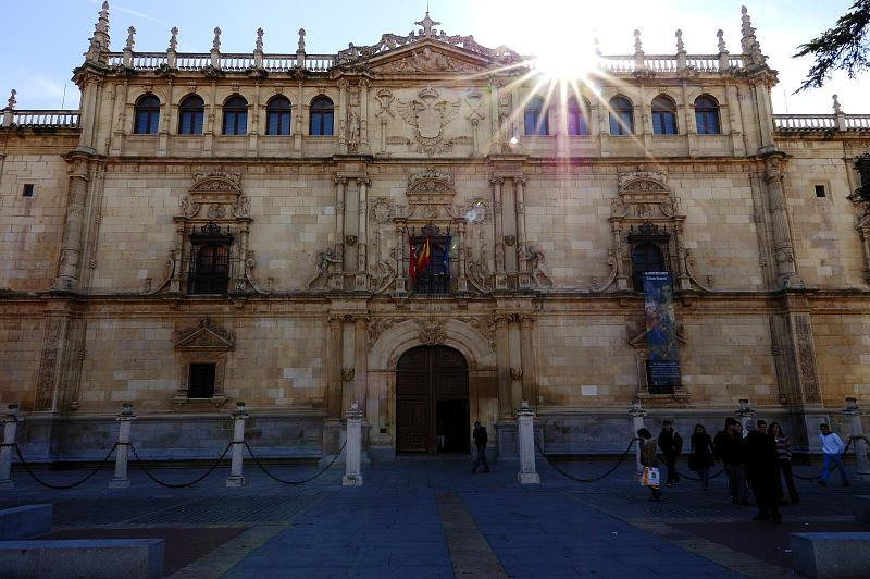 University of Alcalá de Henares (Community of Madrid, Spain).